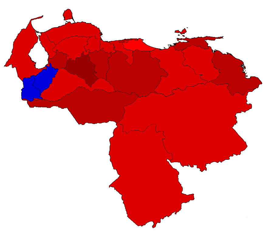 Election Results by state for the Venezuelan Presidential election of 2012. Red indicates states carried by President Chávez, blue indicates states carried by governor Capriles.